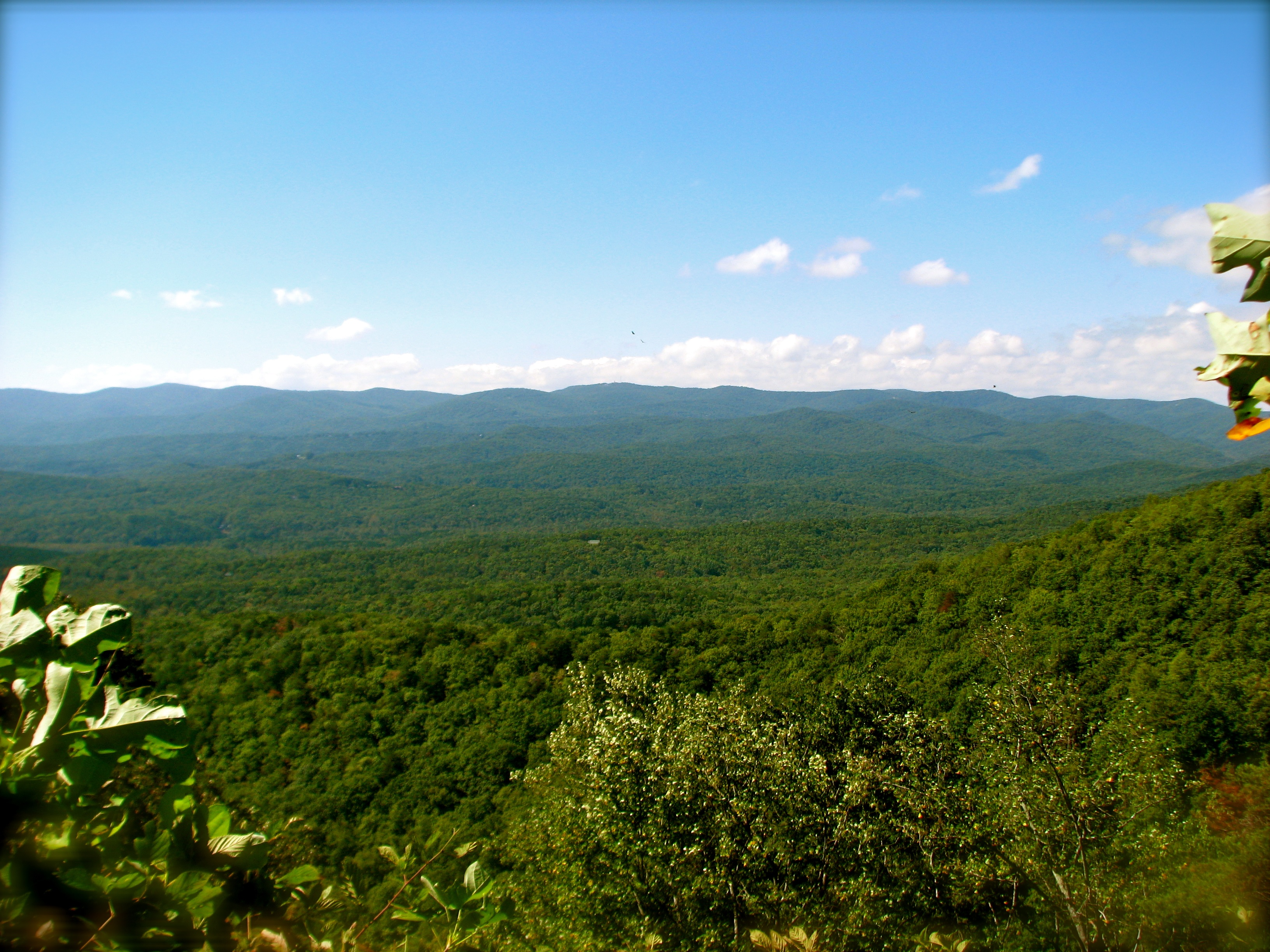 Amicalola Falls State Park, Georgia